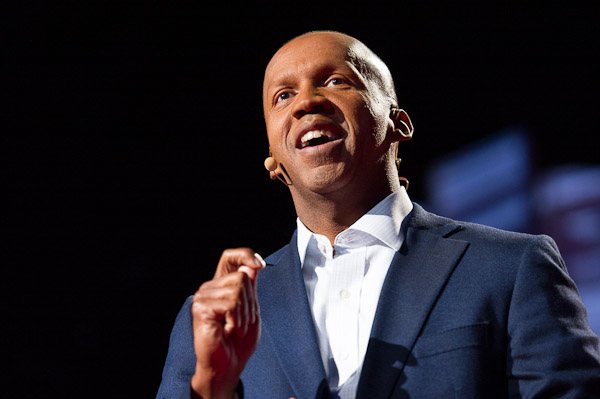 Bryan Stevenson at TED2012: Full Spectrum, 27 February - 2 March 2012 in Long Beach, CA.